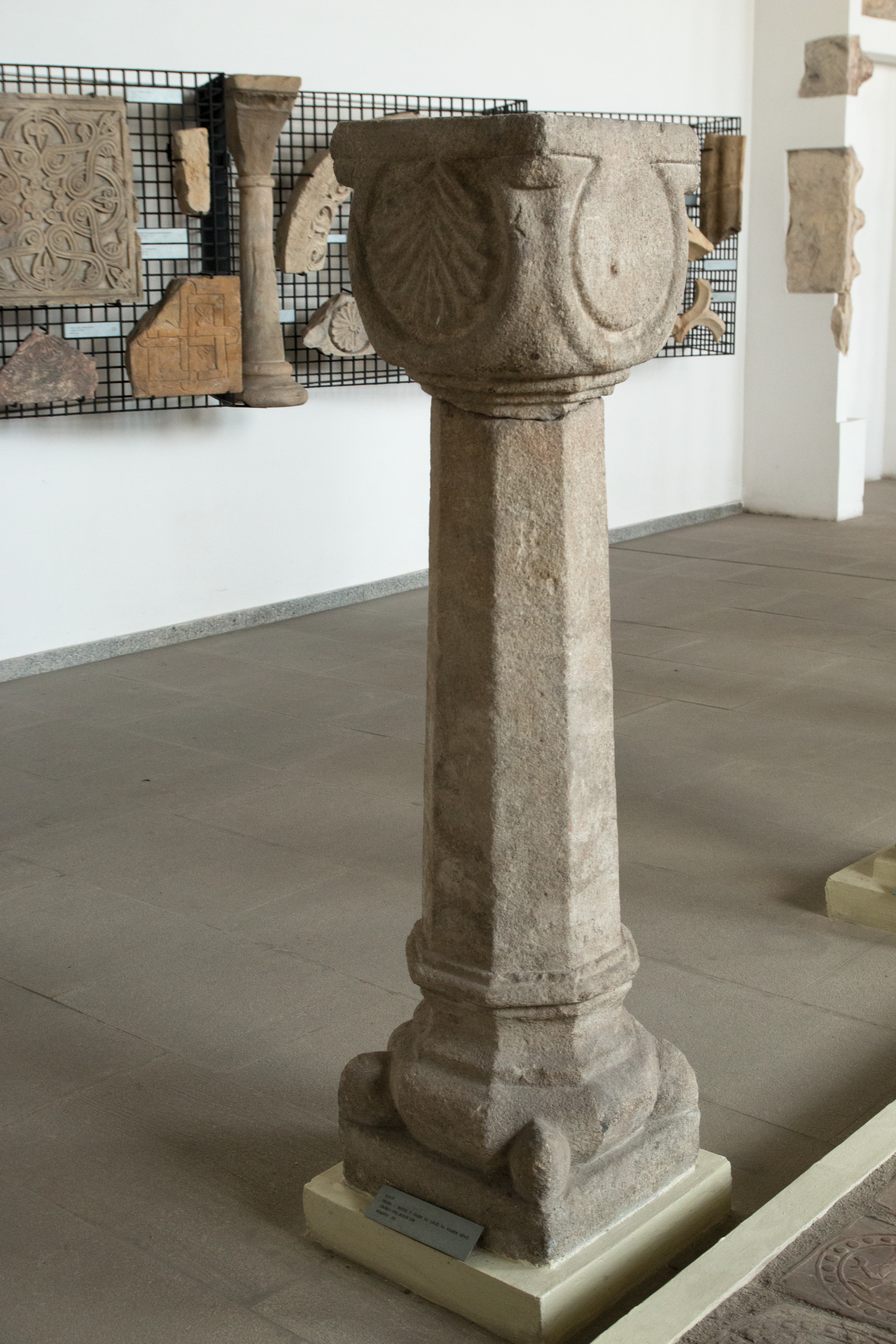 Column of the former Virgin Mary church at Na Louži, in the Old Town (demolished 1791), around 1200, sandstone. Lapidary of the National Museum in Prague, cat. no. 67.